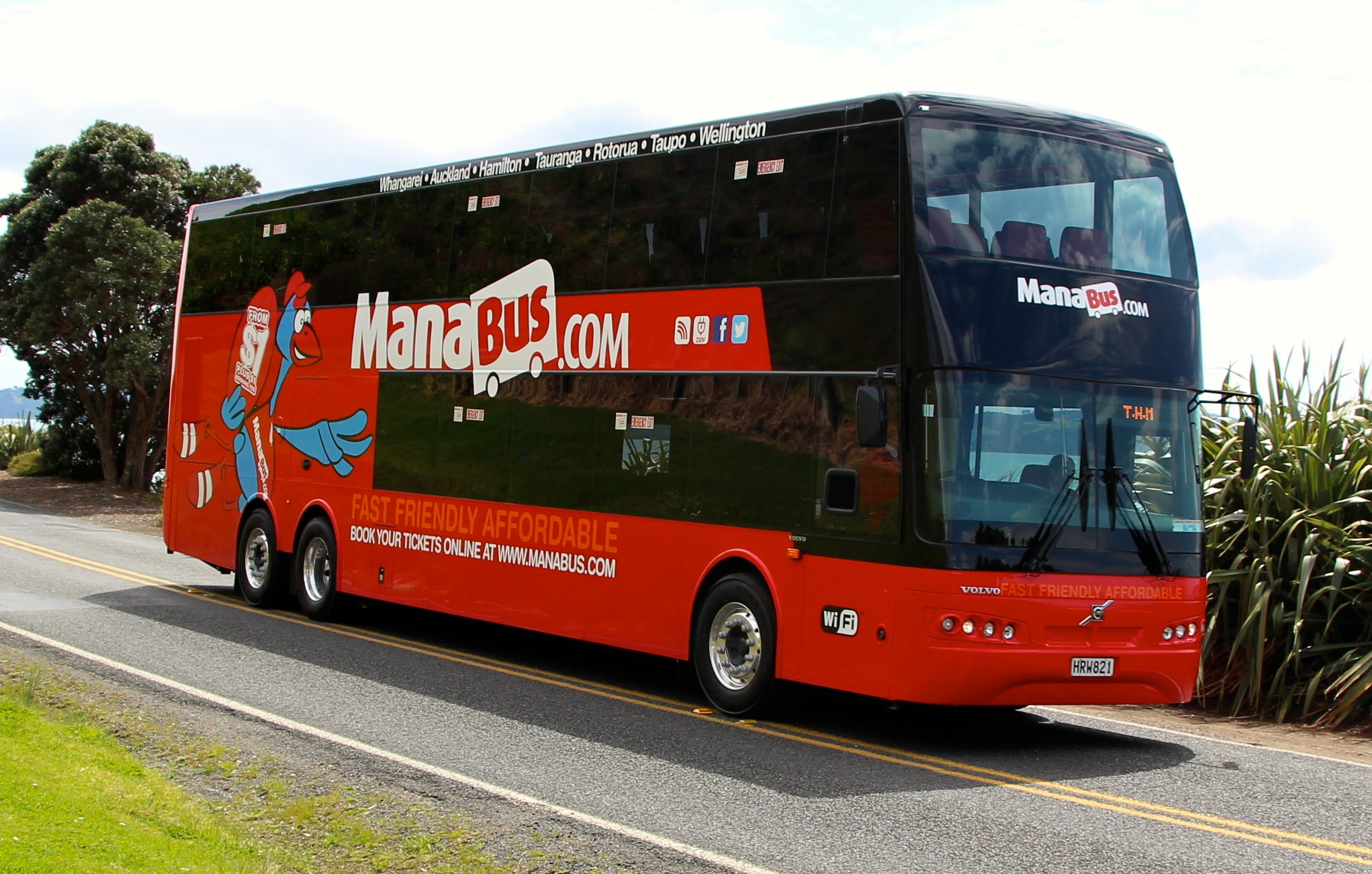 Volvo B11R double decker bus of , a New Zealand city-to-city express coach service operator. The bidywork was built by Kiwi Bus Builders, of Tauranga.